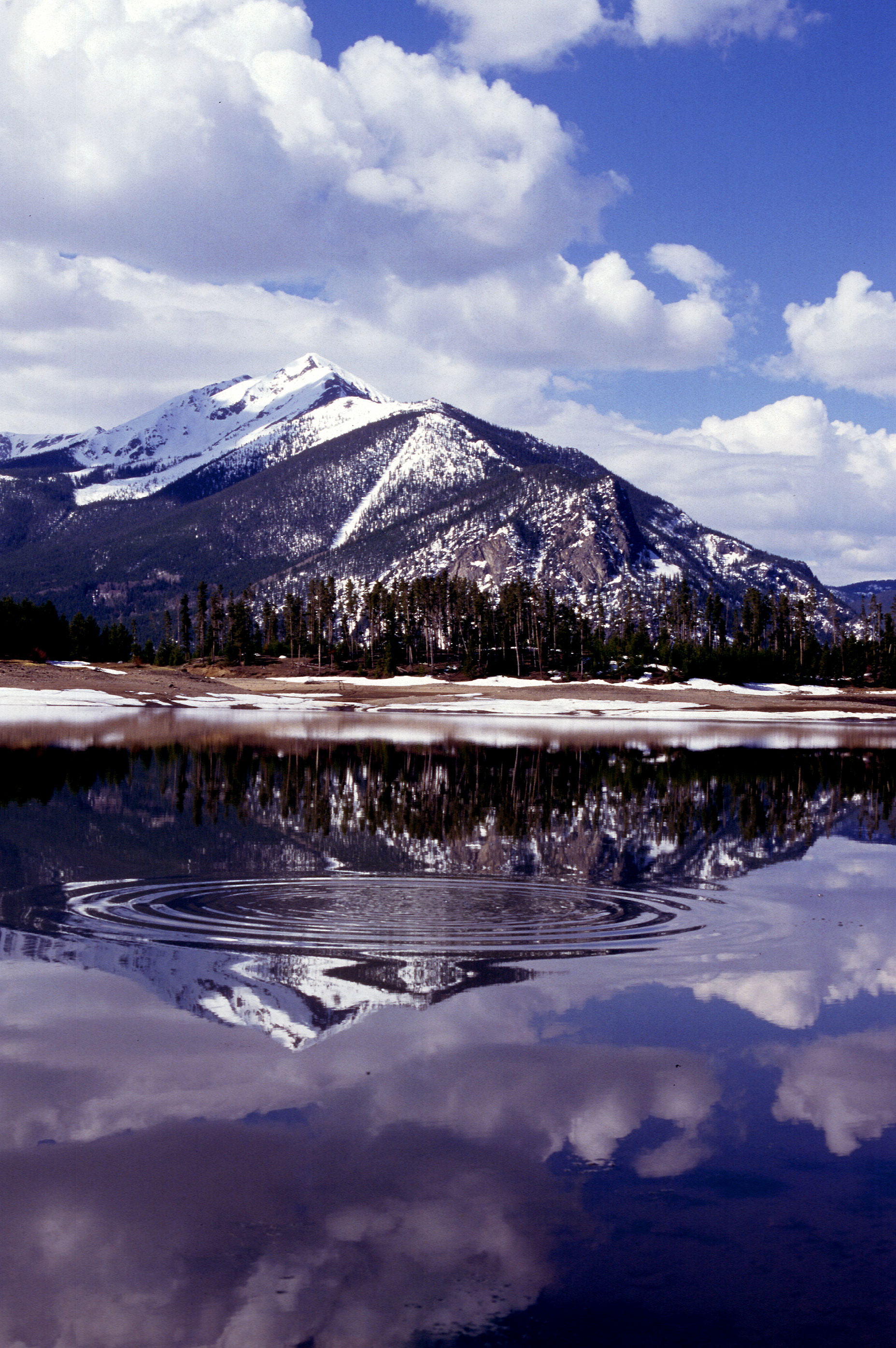 Snowmelt runoff fills a reservoir in the Rocky Mountains near Dillon, Colorado. From en wiki